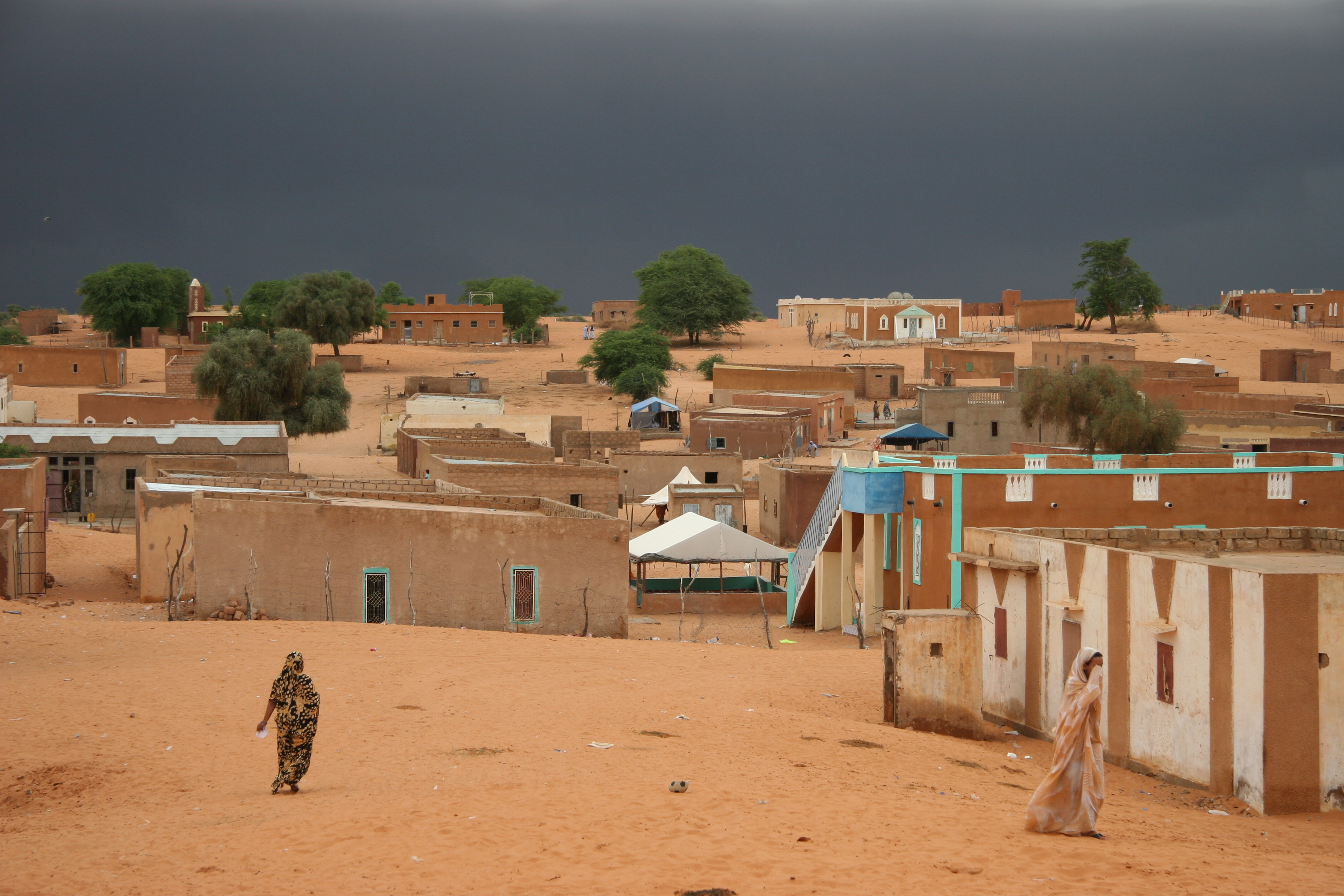 Bareina, a small desert village in the south of Mauritania, West Africa. A view of the sky just minutes before rain started.